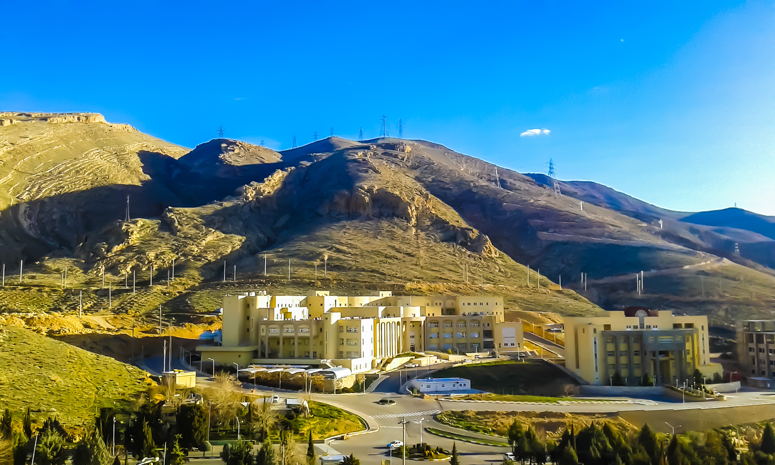 Shiraz University